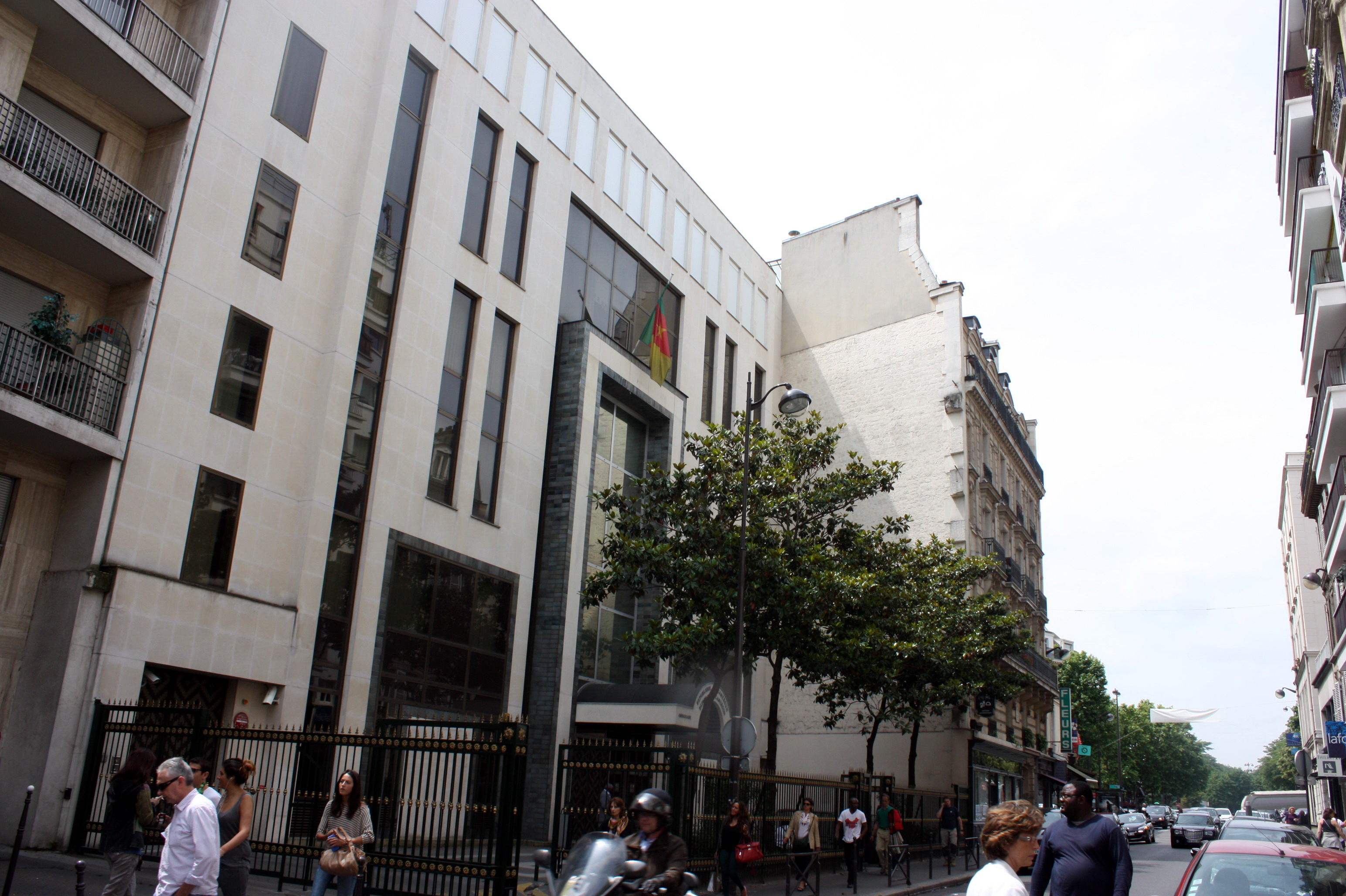 Cameroonian Embassy, Paris